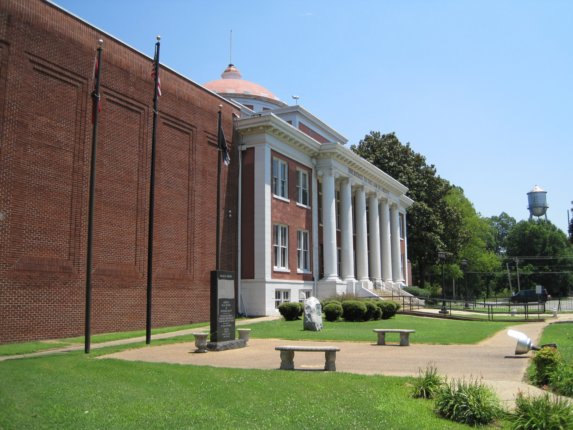 Marion, Arkansas. Courthouse and memorials.